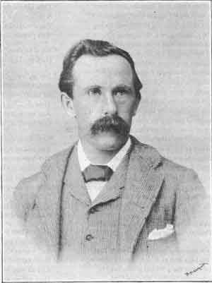 Image of Arnold Frank Hills (1857-1927), featured in his weekly newspaper The Vegetarian